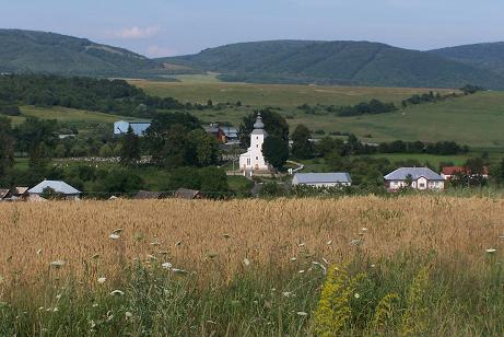 Wiew of church (Hazlin)